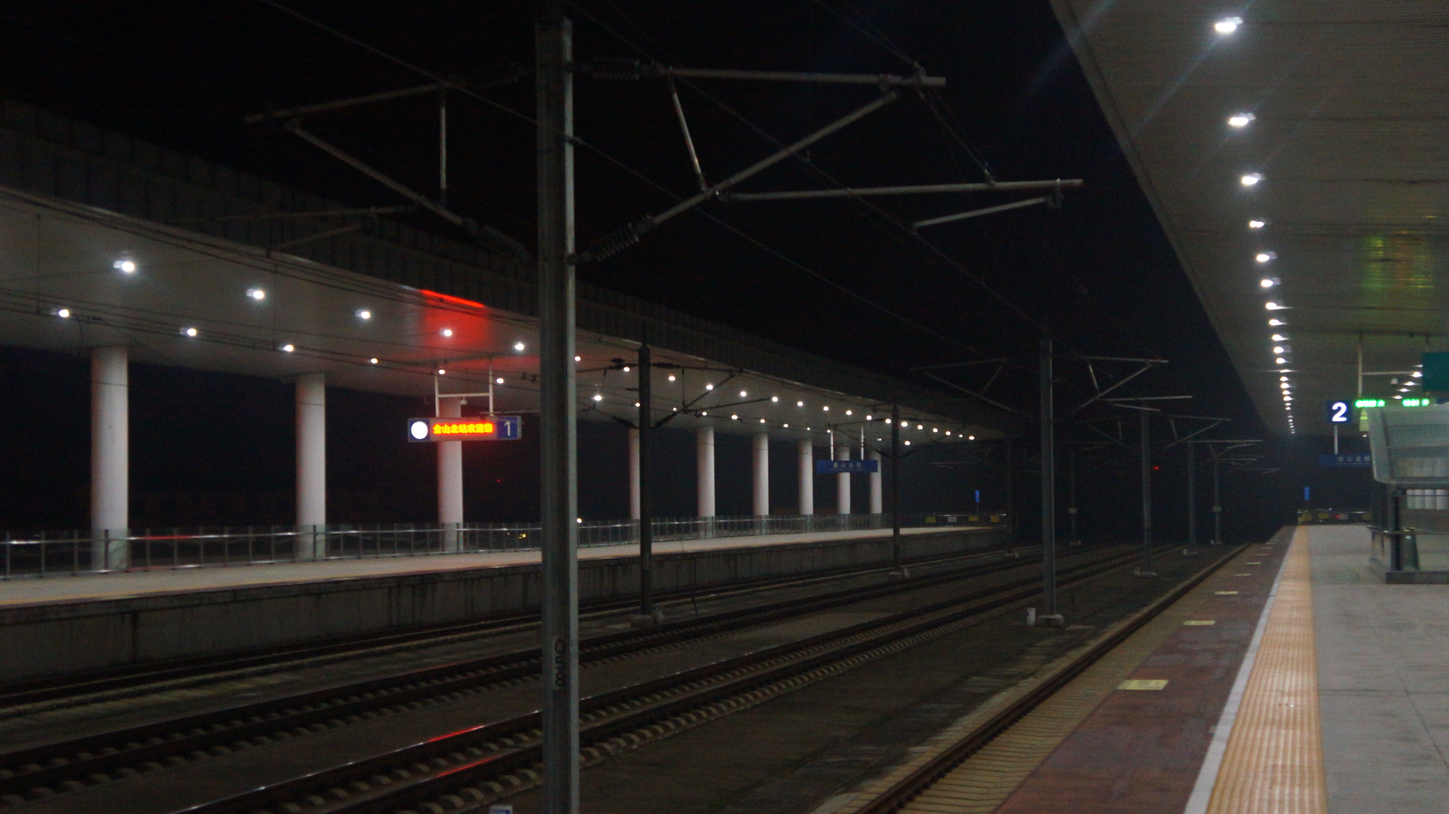 Platforms of Jinshanbei Railway Station